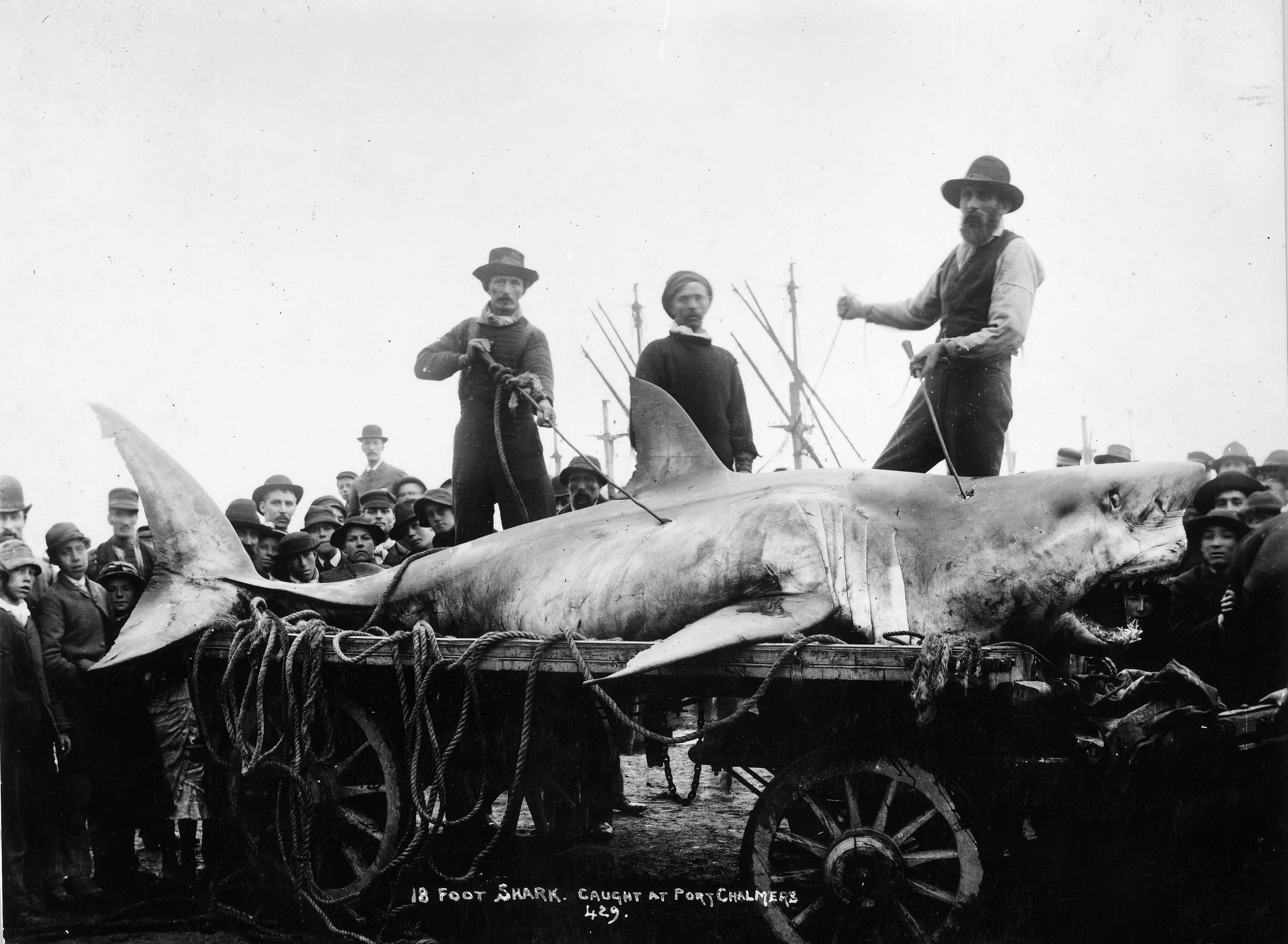 Photographer: David De Maus Shark caught at Port Chalmers, ca 1900 Dry plate glass negative Reference No. 10x8-1669-G De Maus Collection, Alexander Turnbull Library, National Library of New Zealand from the